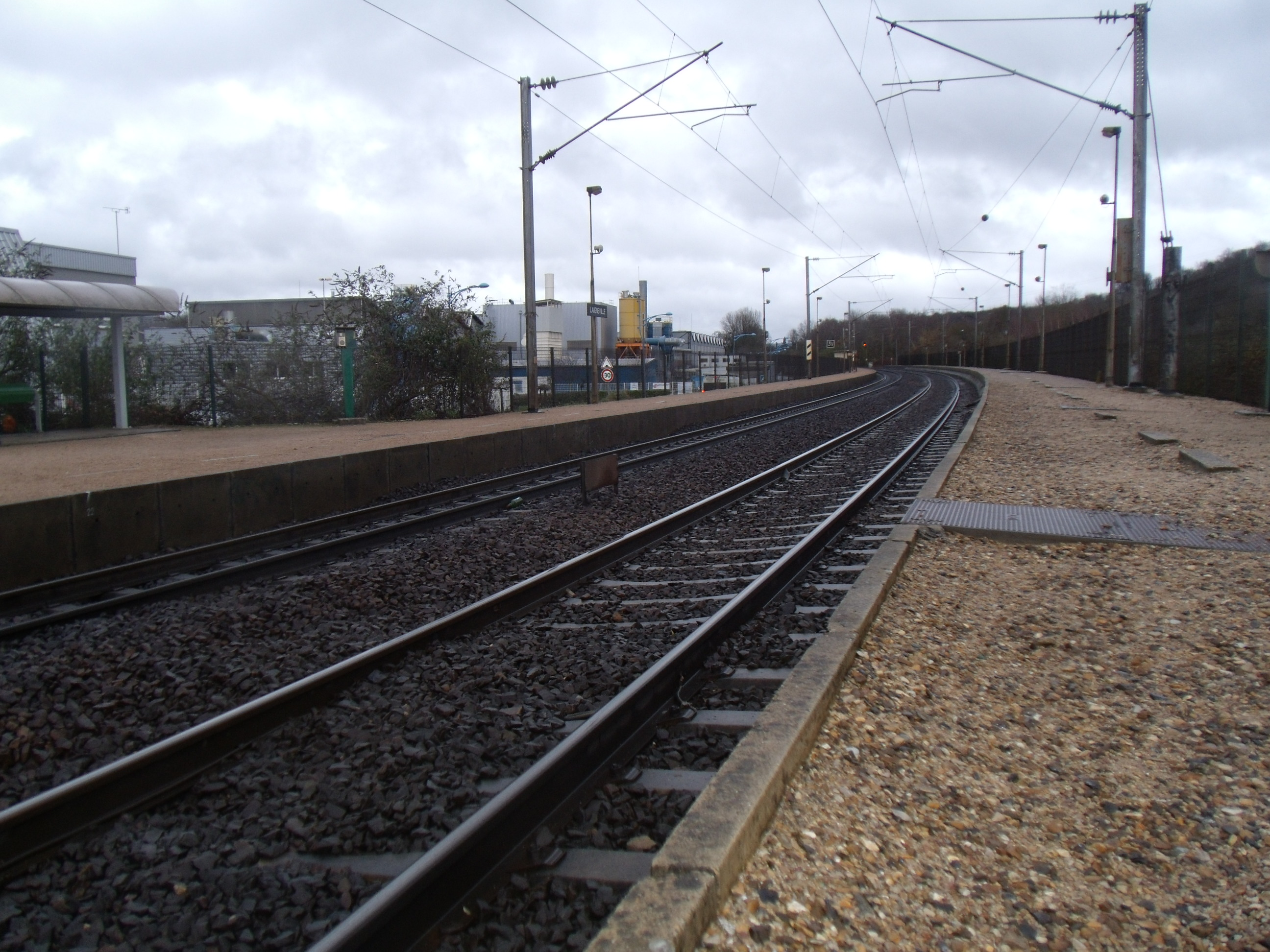 Laigneville station; Tracks toward Creil